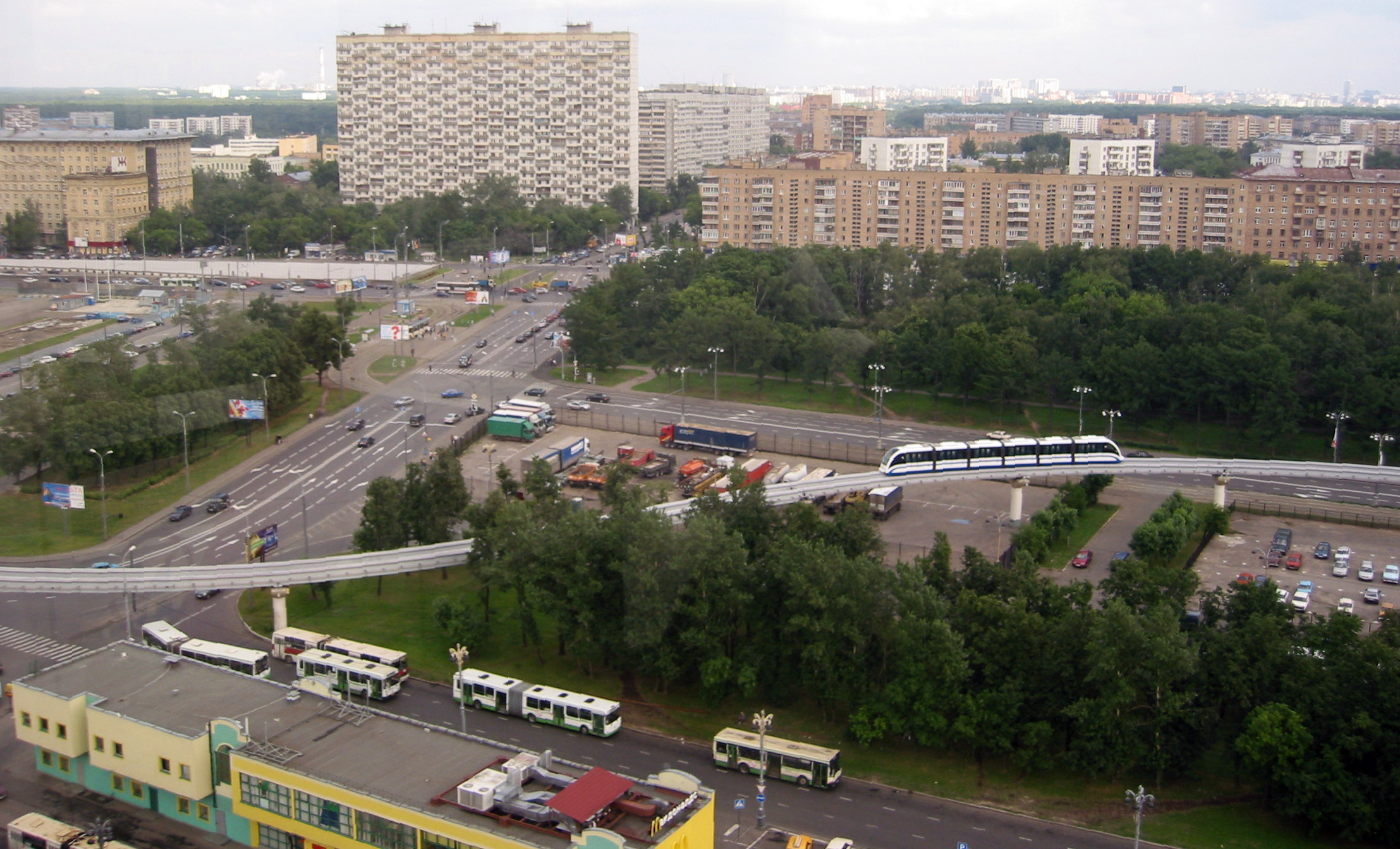 Moscow monorail from a big dipper on VDNKh.